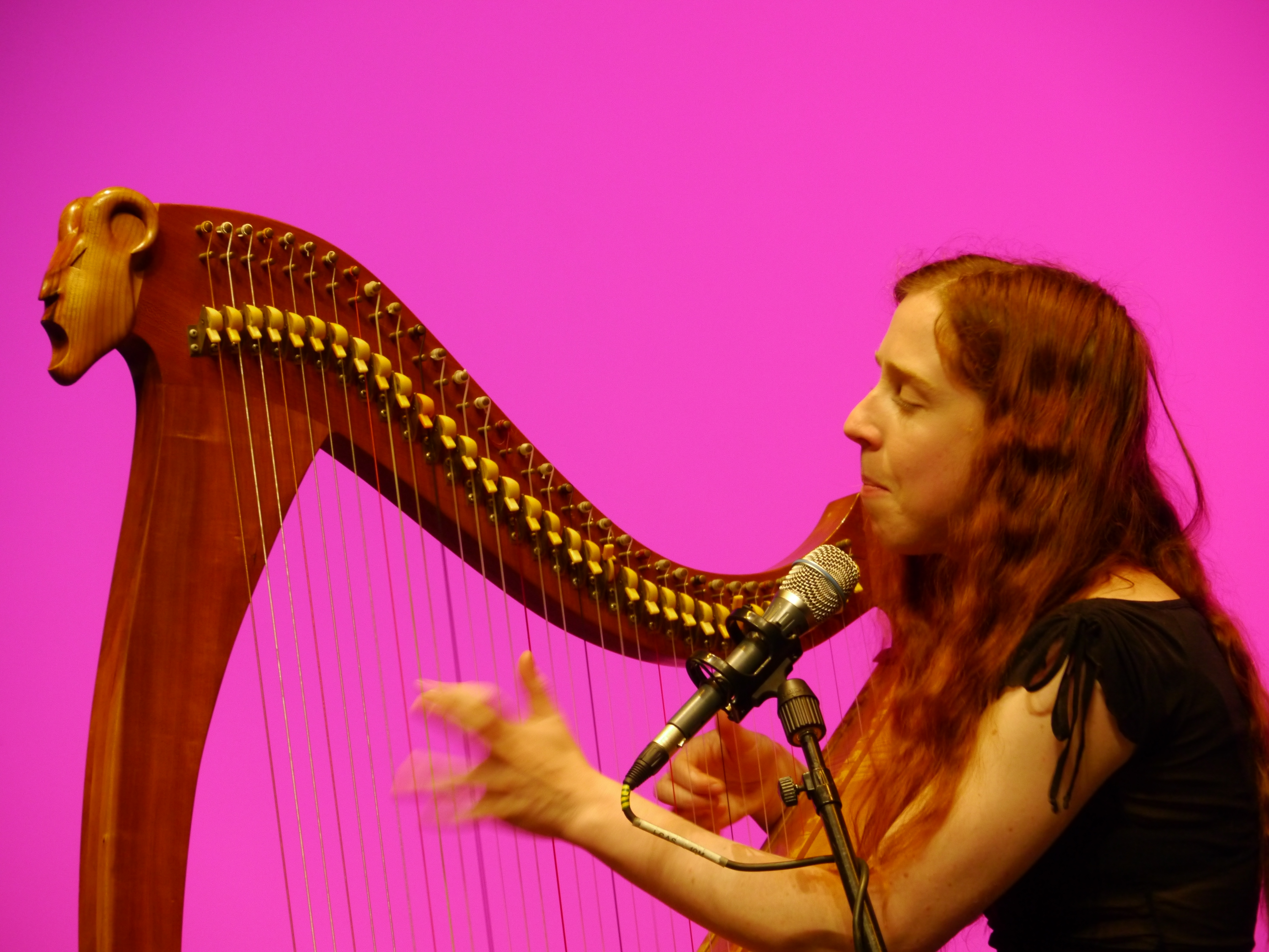 Mang'Azur festival of Toulon - official site